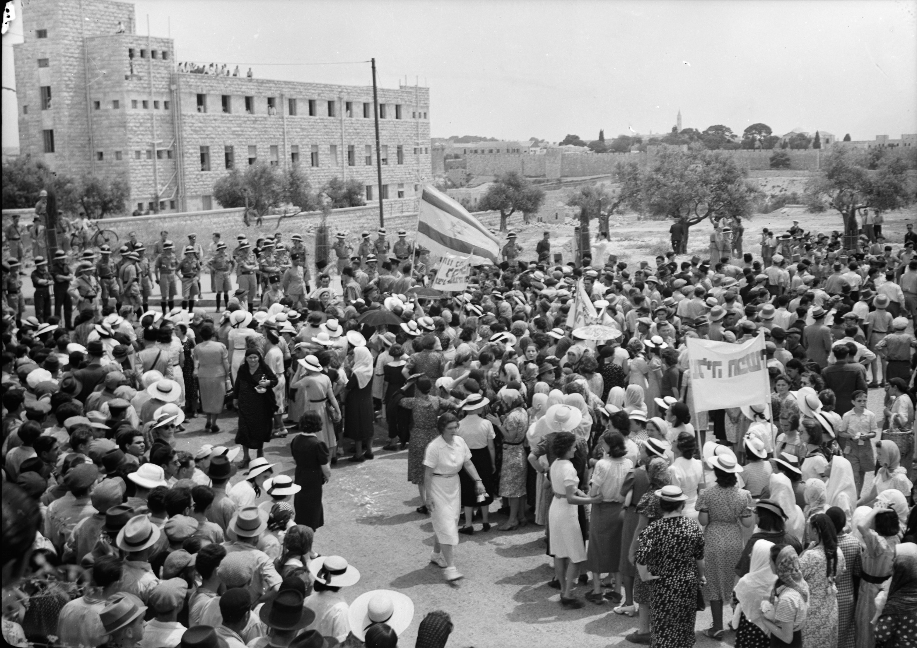 Jewish anti Palestine White Paper demonstrations. [Women's demonstration on May 22, 1939]. Demonstration approaching King David Hotel stopped by cordon of police seen in distance.